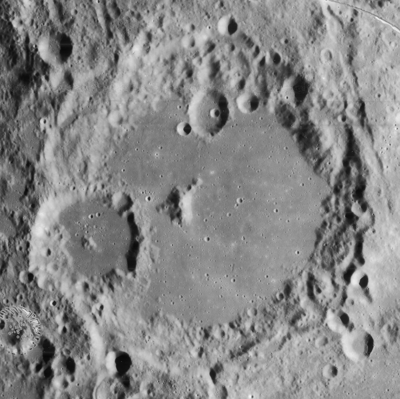 Albategnius, on the moon. Splotch in lower left and streak in upper right are blemishes on original.